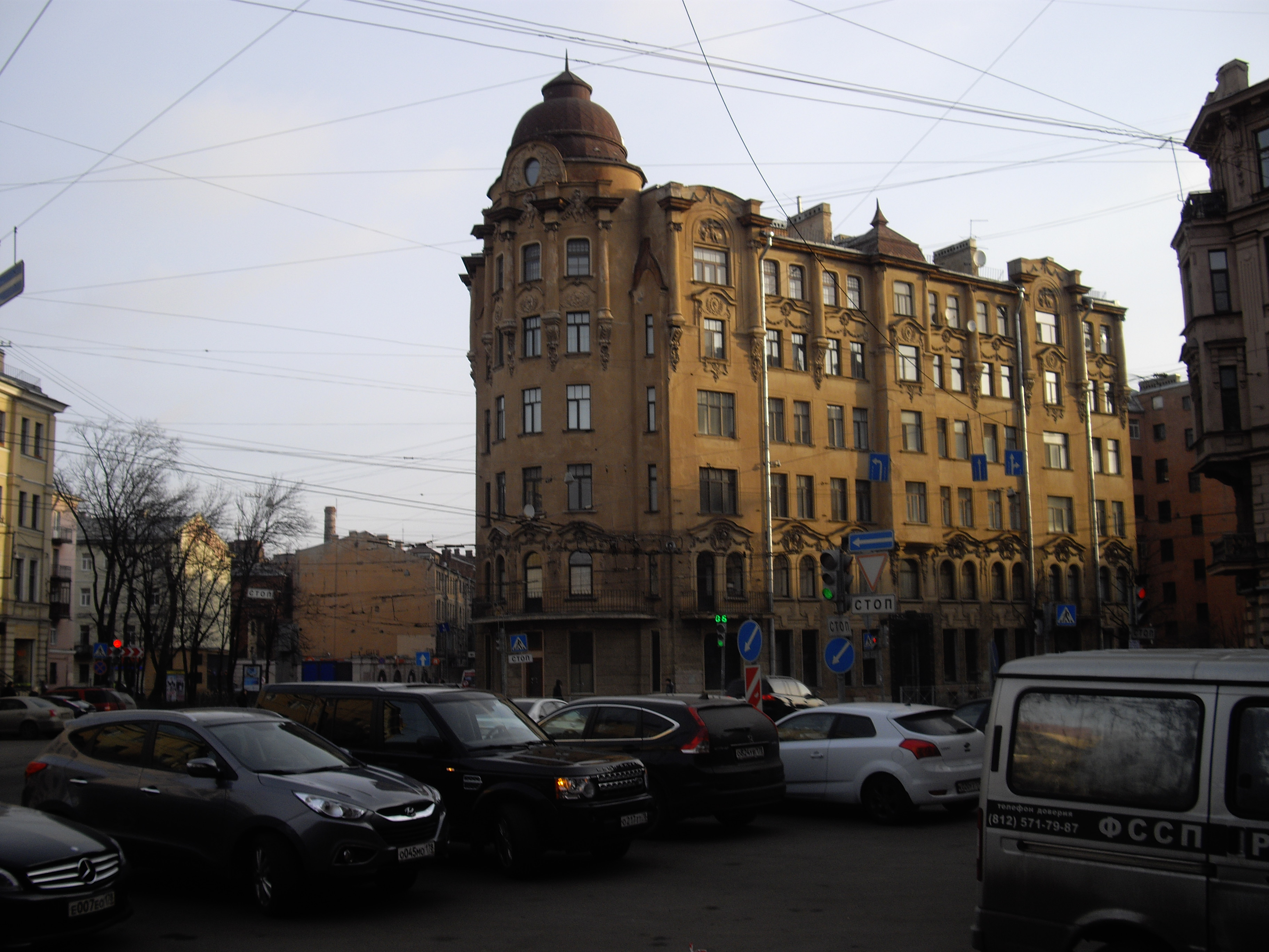 1, Bolshaya Pushkarskaya Street - 8, S'ezjinskaya Street, Saint Petersburg, Russia (the house of Savin). Architect Sergei Ginger, 1909